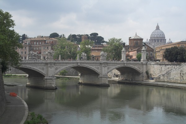 Ponte Vittorio Emanuele II